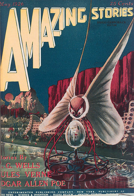 Scanned cover of the May 1926 issue of the science fiction pulp magazine Amazing Stories. The cover illustrates "The Crystal Egg", by H. G. Wells.